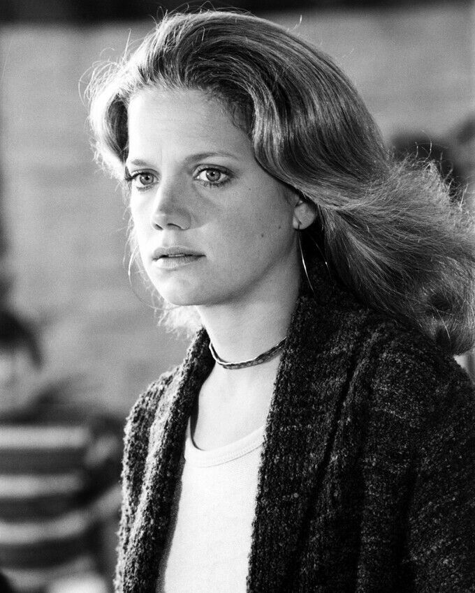 Gretchen Corbett in a 1975 press photo